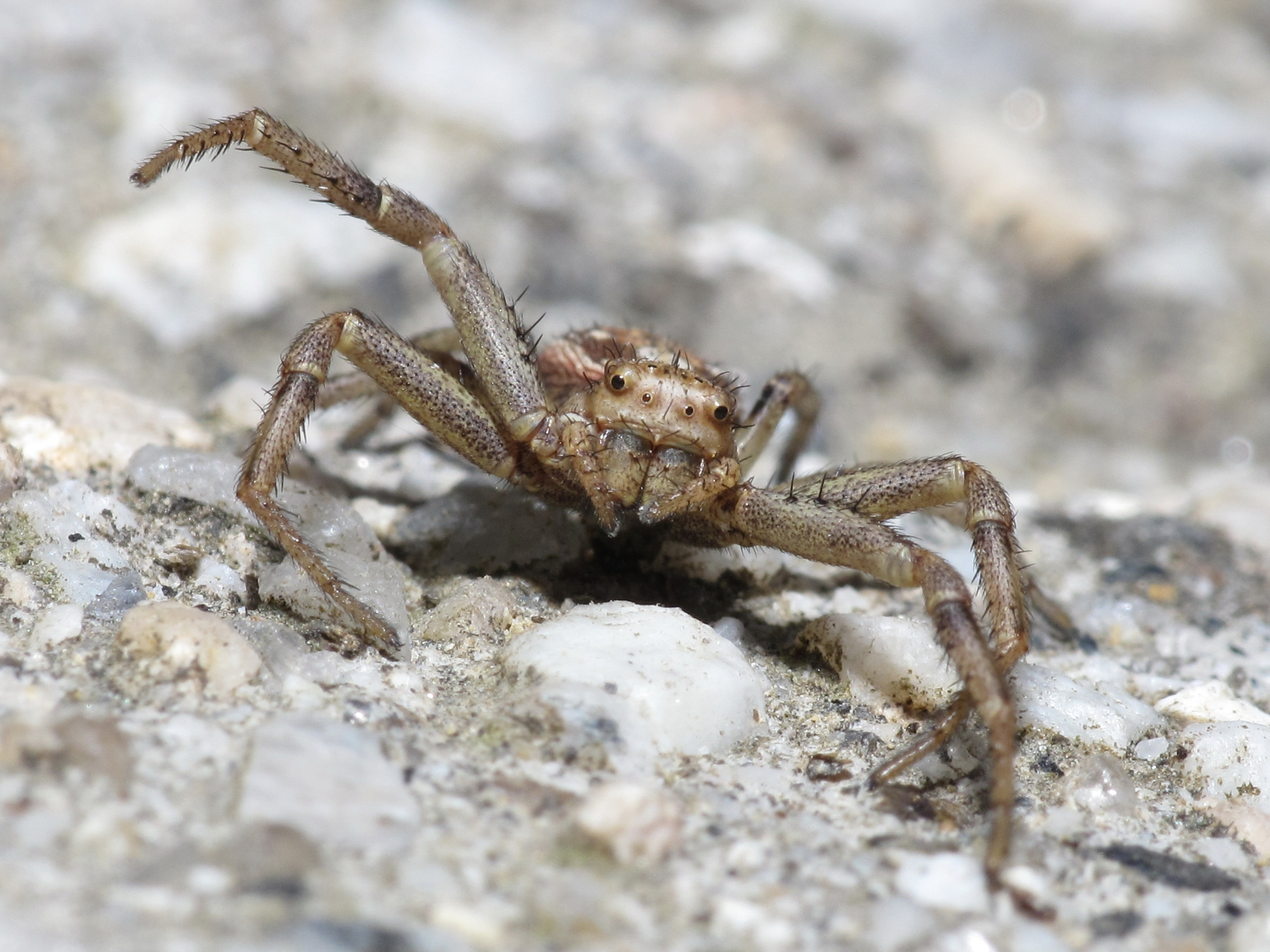 Xysticus cristatus, A Estrada, Galicia, Spain